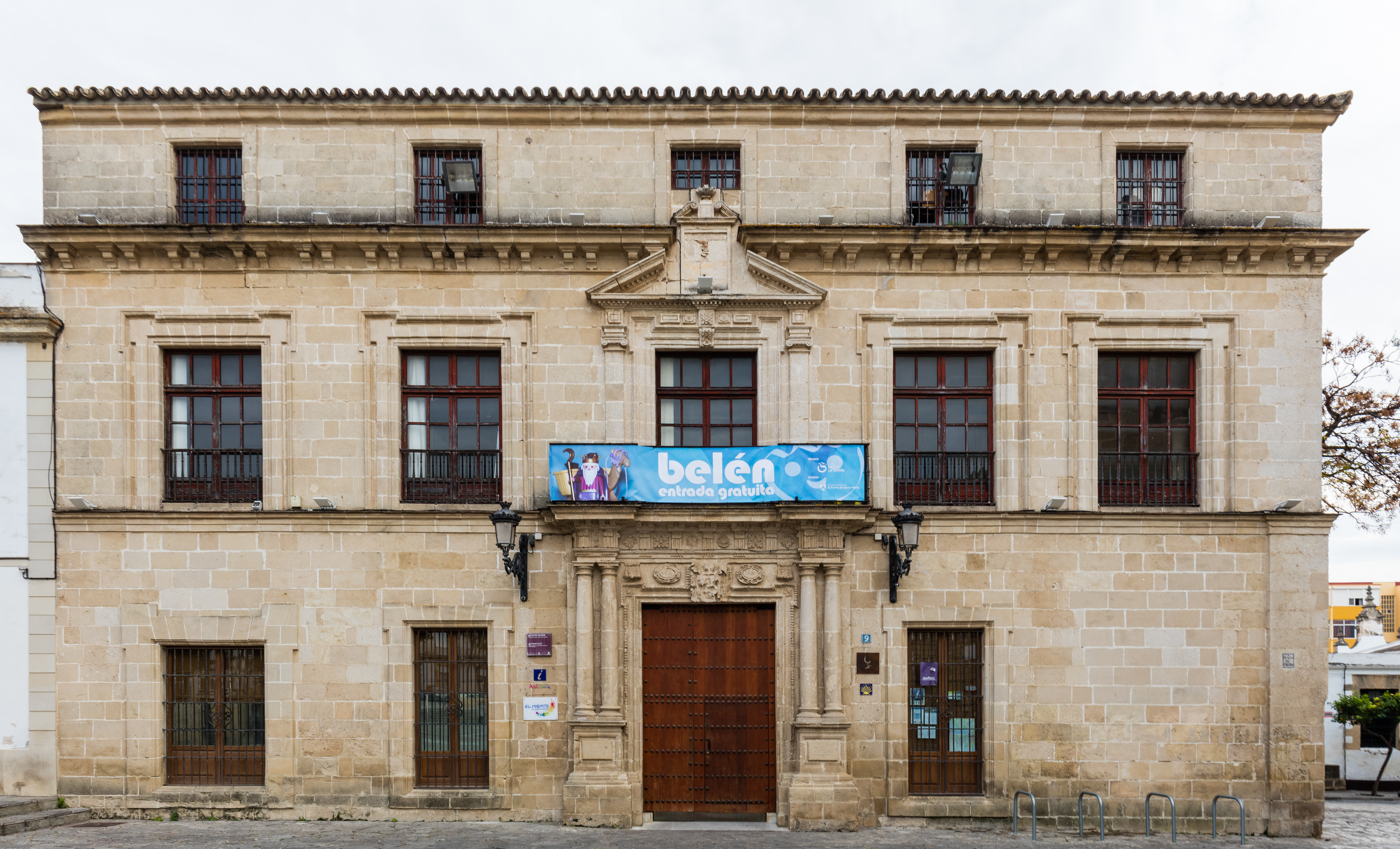 Palace of Araníbar, El Puerto de Santa María, Cádiz, Spain